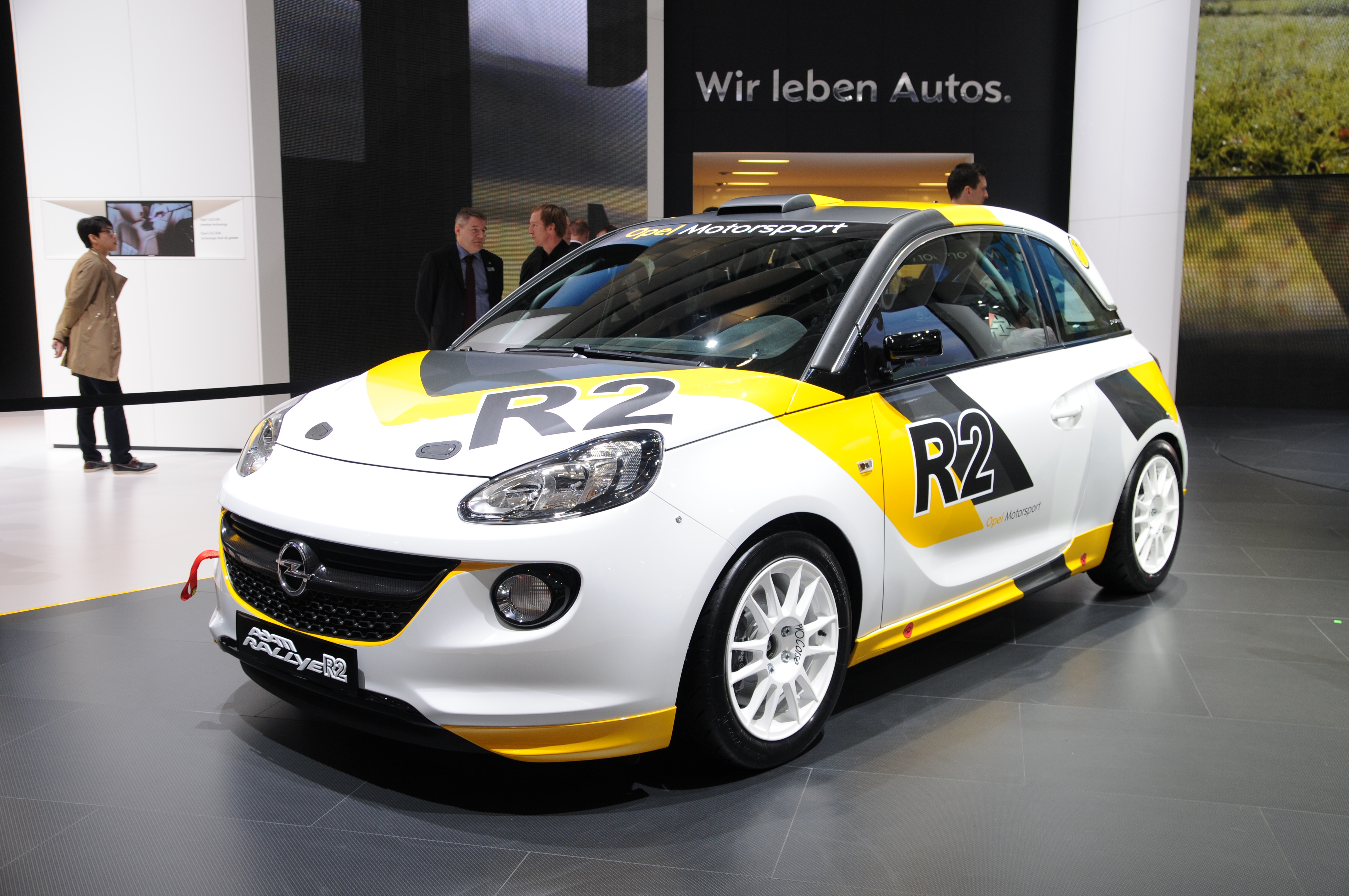 Geneva Motor Show 2013 (photos taken on the first press day)